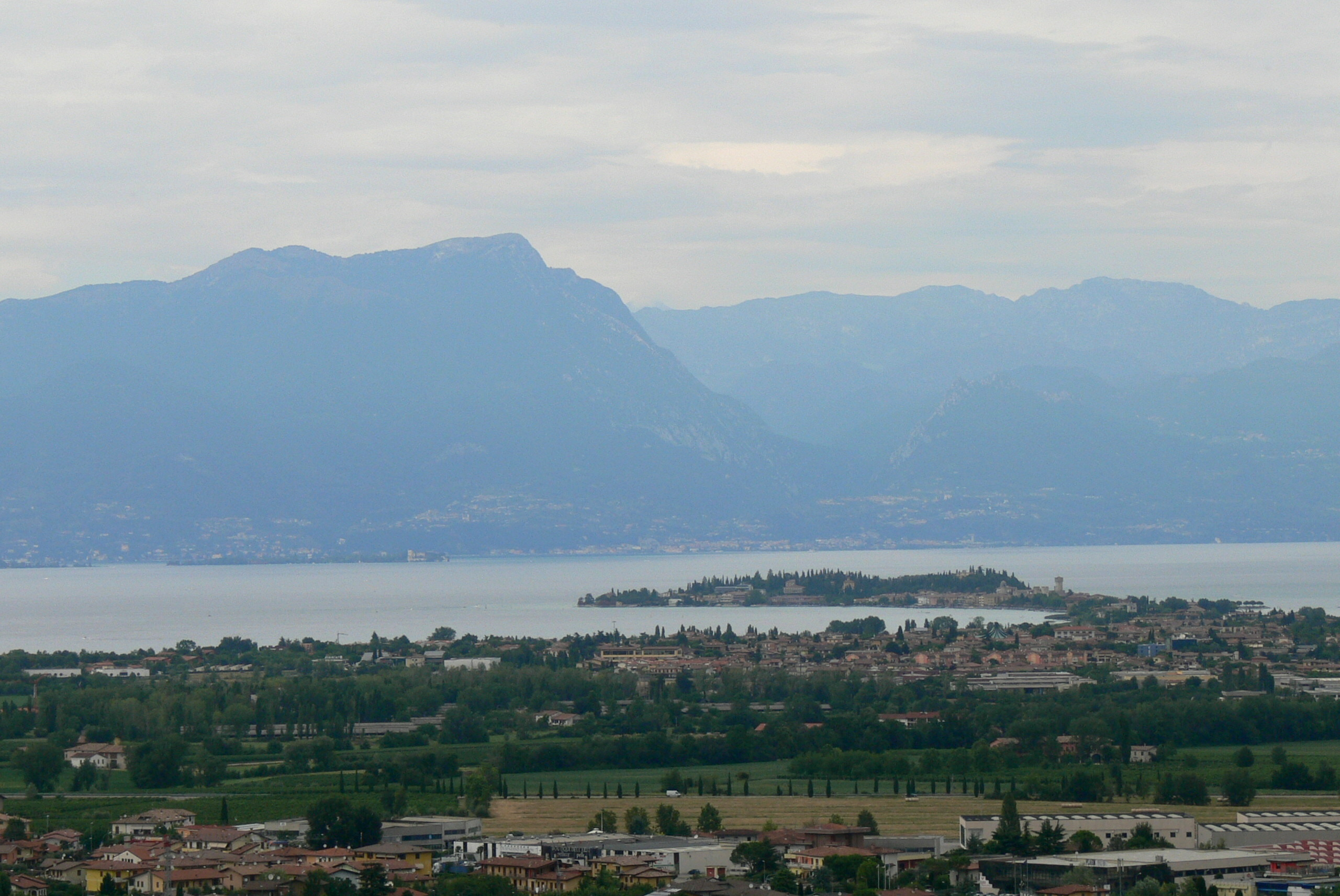 San Martino della Battaglia ( Italy ). View from the tower: Simione at Lake Garda.